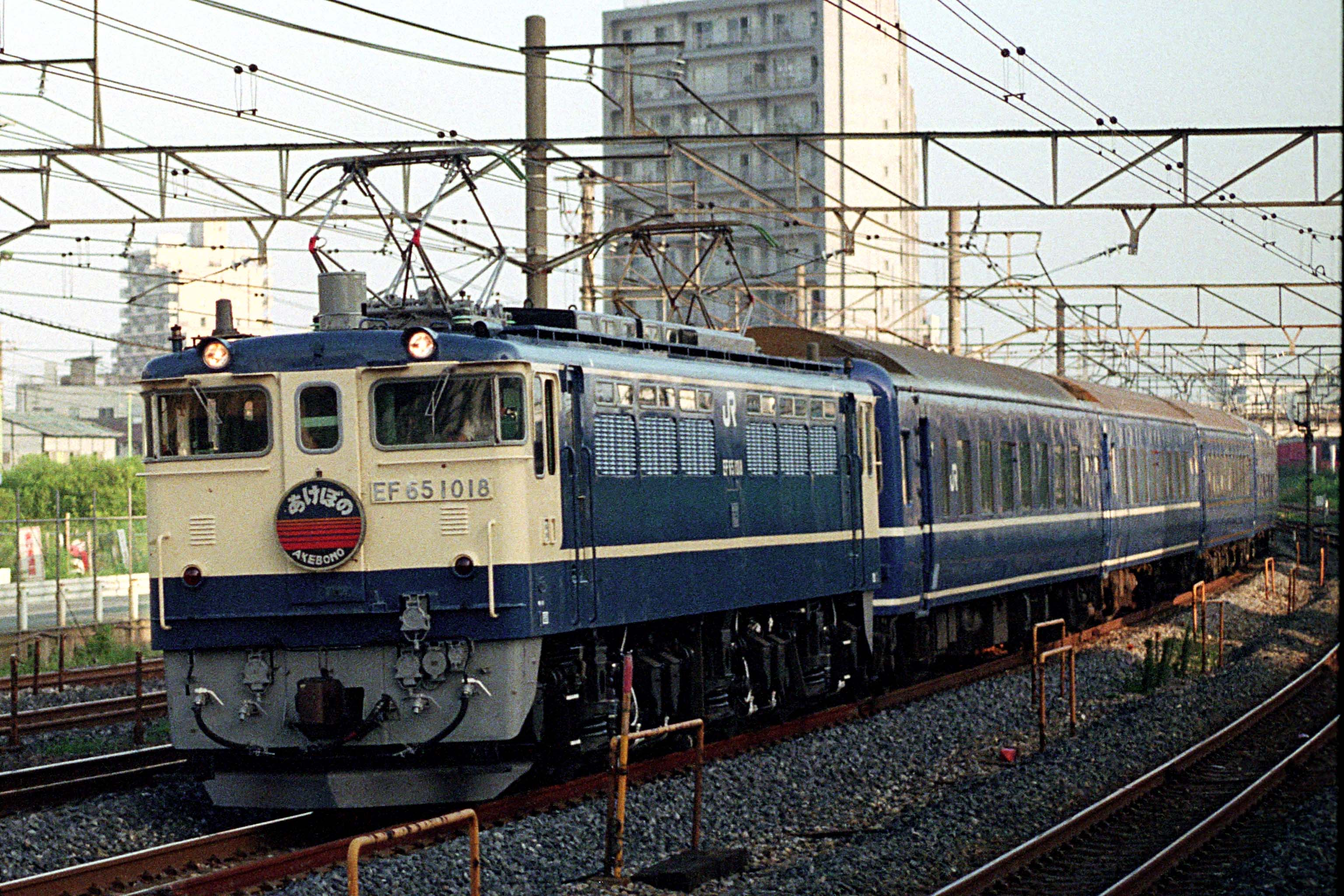 EF65 1018 hauling the "Akebono" overnight sleeper train near Kawaguchi Station